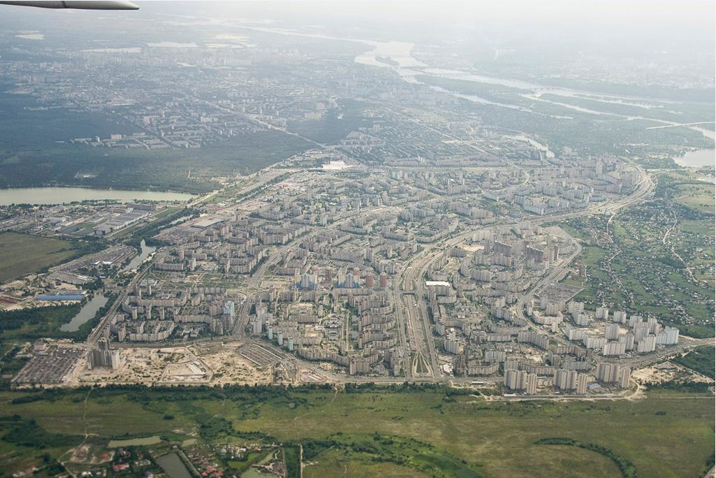 Aerial view of Vigurovshchina-Troeshchina, Kiev, Ukraine